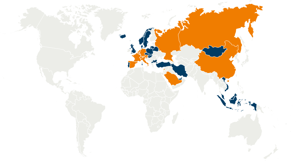 map Kieback&Peter